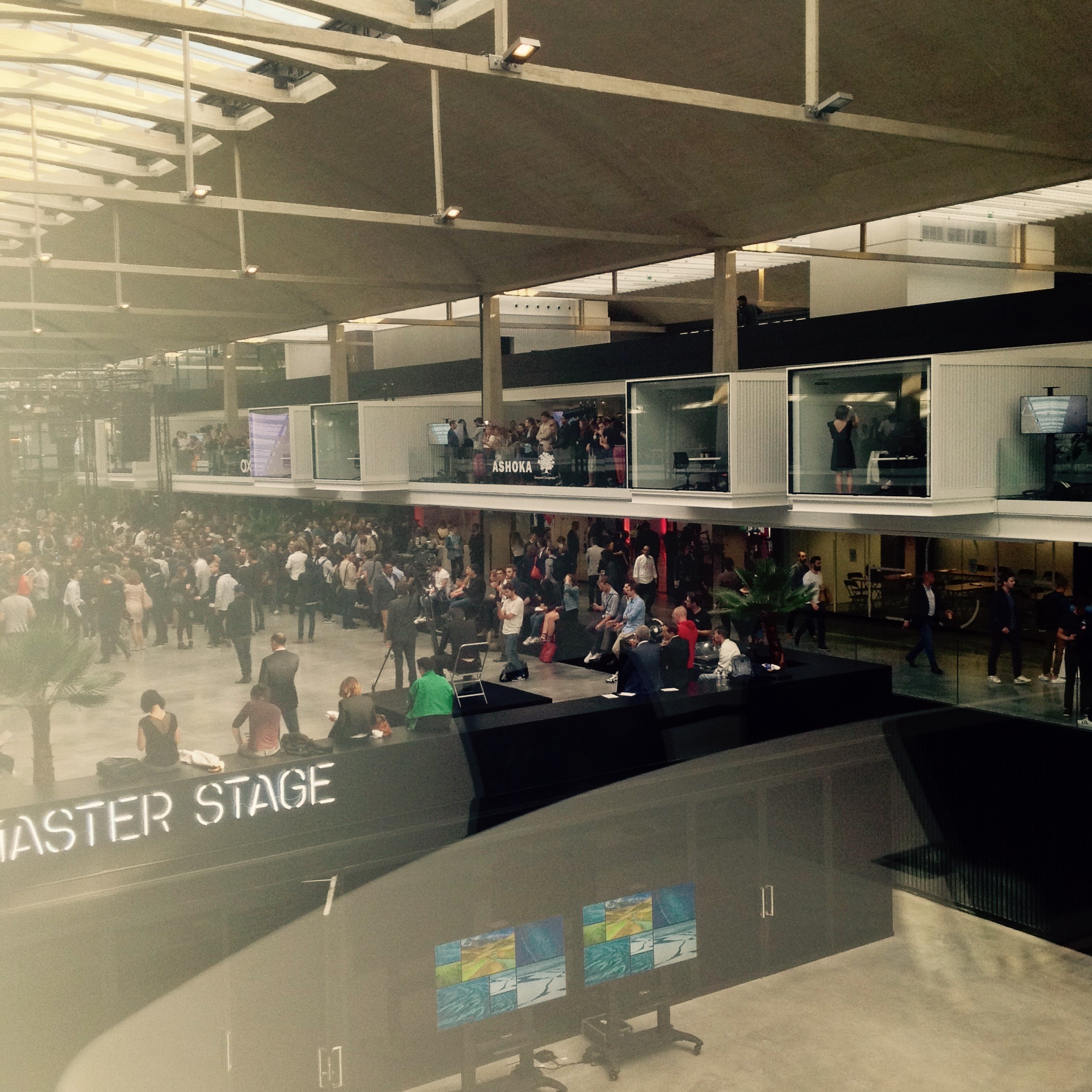 Halle Freyssinet - Station F